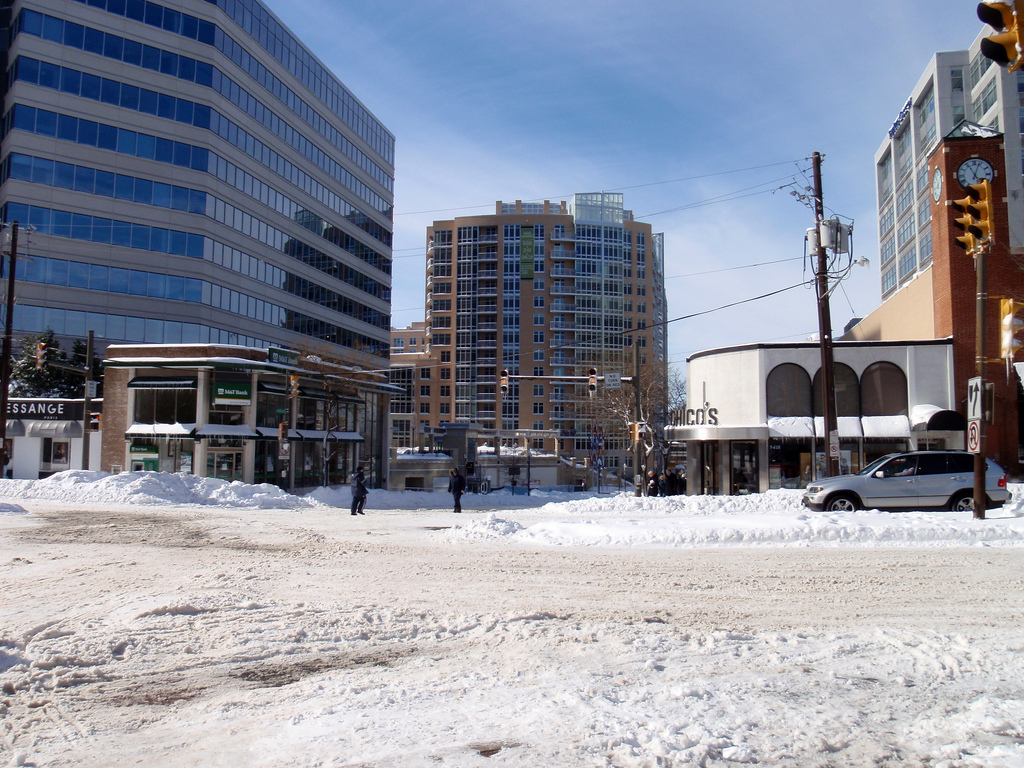 Wisconsin Ave at Willard Ave in Friendship Village, MD after a snowstorm.